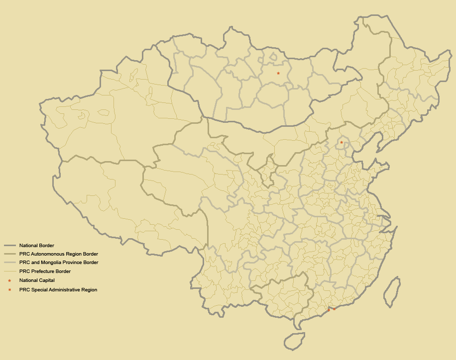 Map showing Mongolia and PRC